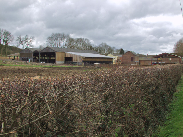 Drewton Manor Farm, Drewton, East Riding of Yorkshire, England. Seen from Drewton Lane. Drewton is said to derive its name from 'Druid's Town' having once been a centre for druidical worship.